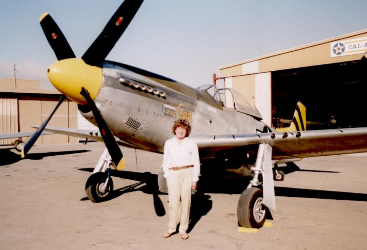 P-51D Mustang at Planes of Fame CA